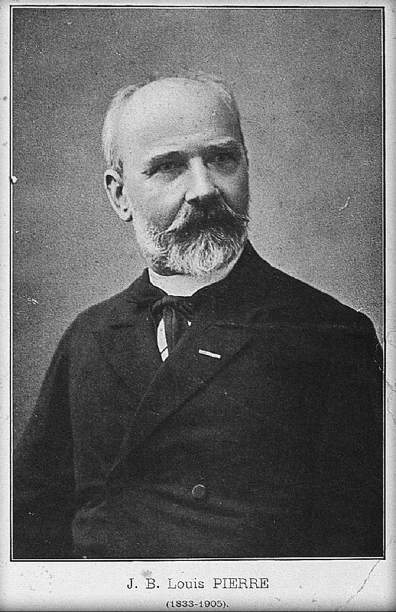 Photograph of French botanist Jean Baptiste Louis Pierre (1833-1905).